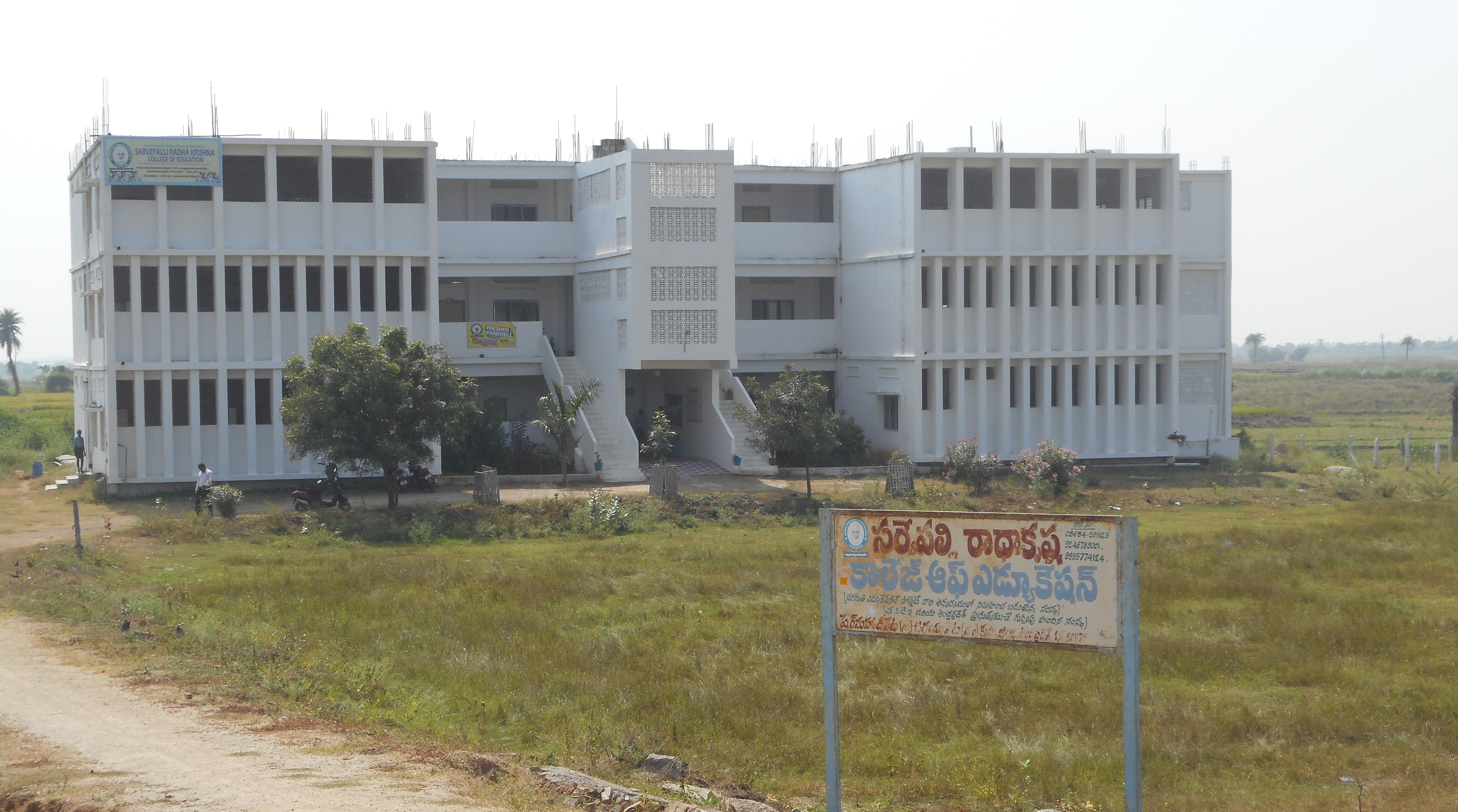 Sarvepalli Radha Krishna College of Education_Sher Mohammed pet (Jaggayya pet mandal) krishna district